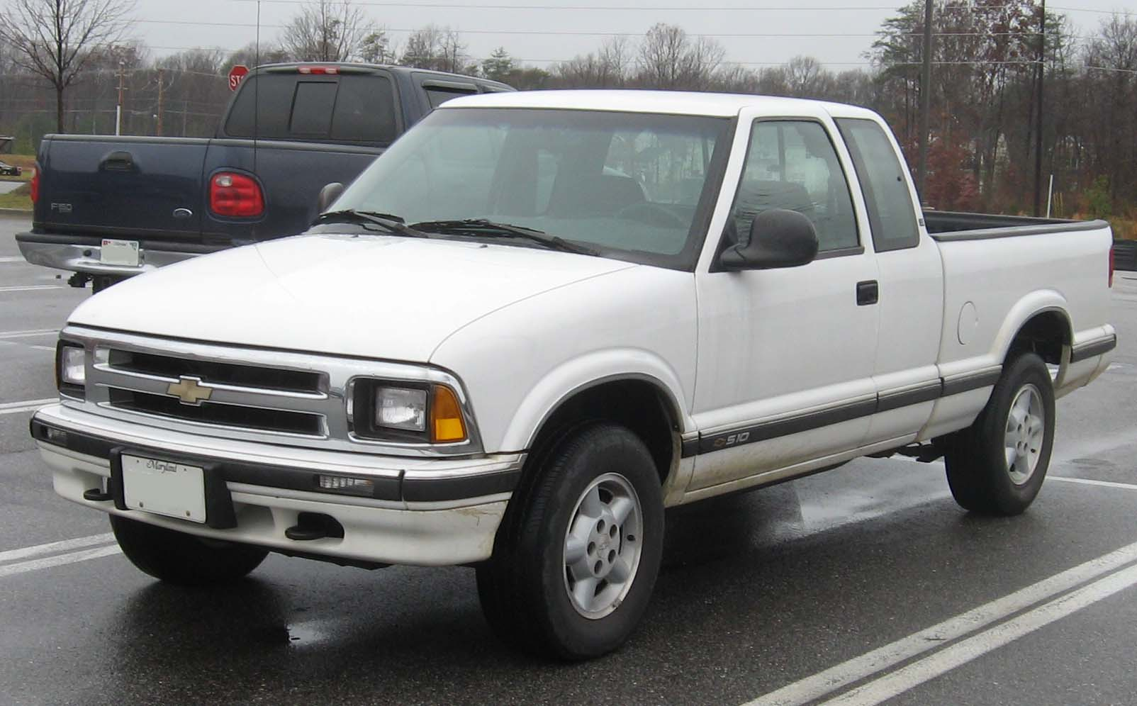 1994-1997 Chevrolet S-10 photographed in Accokeek, Maryland, USA.